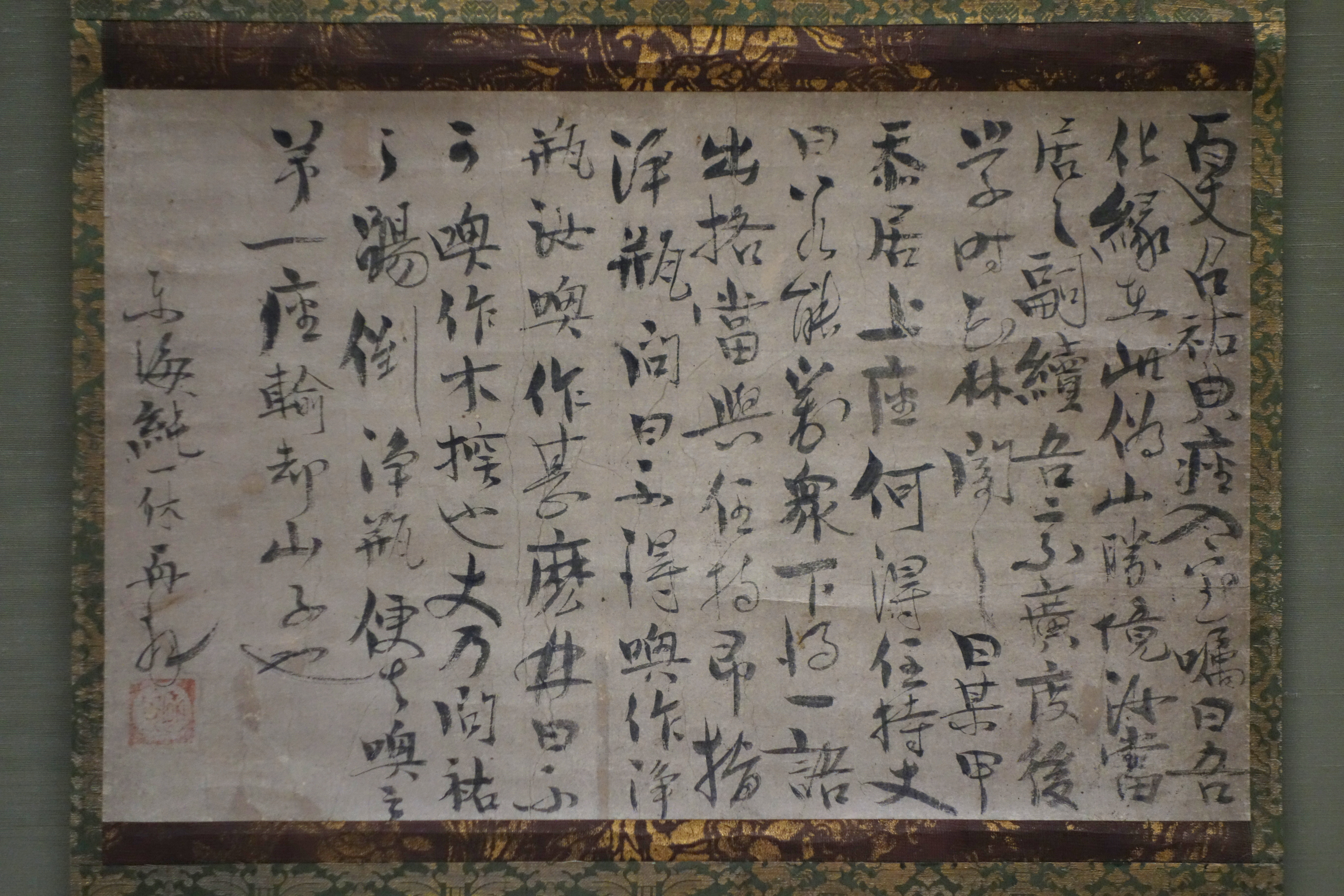 Exhibit in the Tokyo National Museum, Tokyo, Japan. This artwork is old enough so that it is in the public domain.